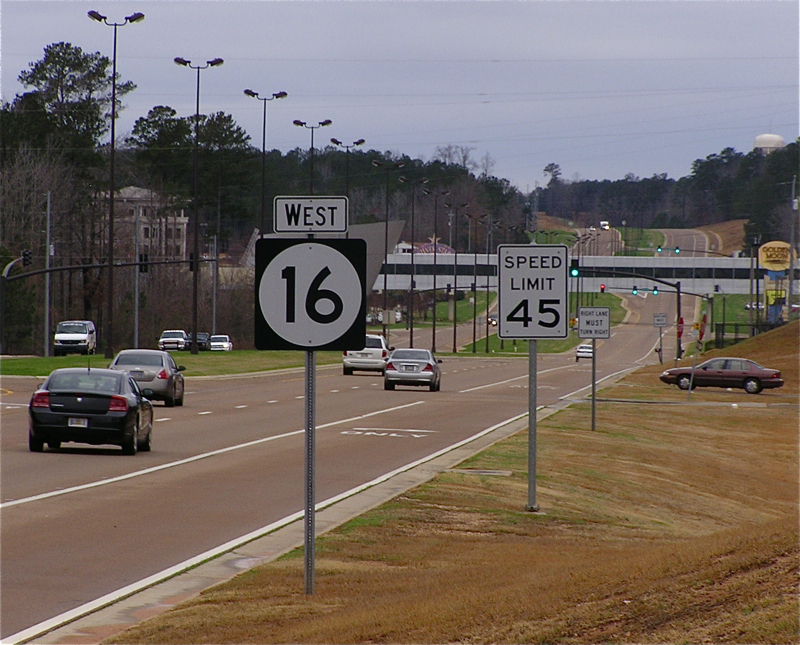 Mississippi Highway 16 in Neshoba County, January 2011.